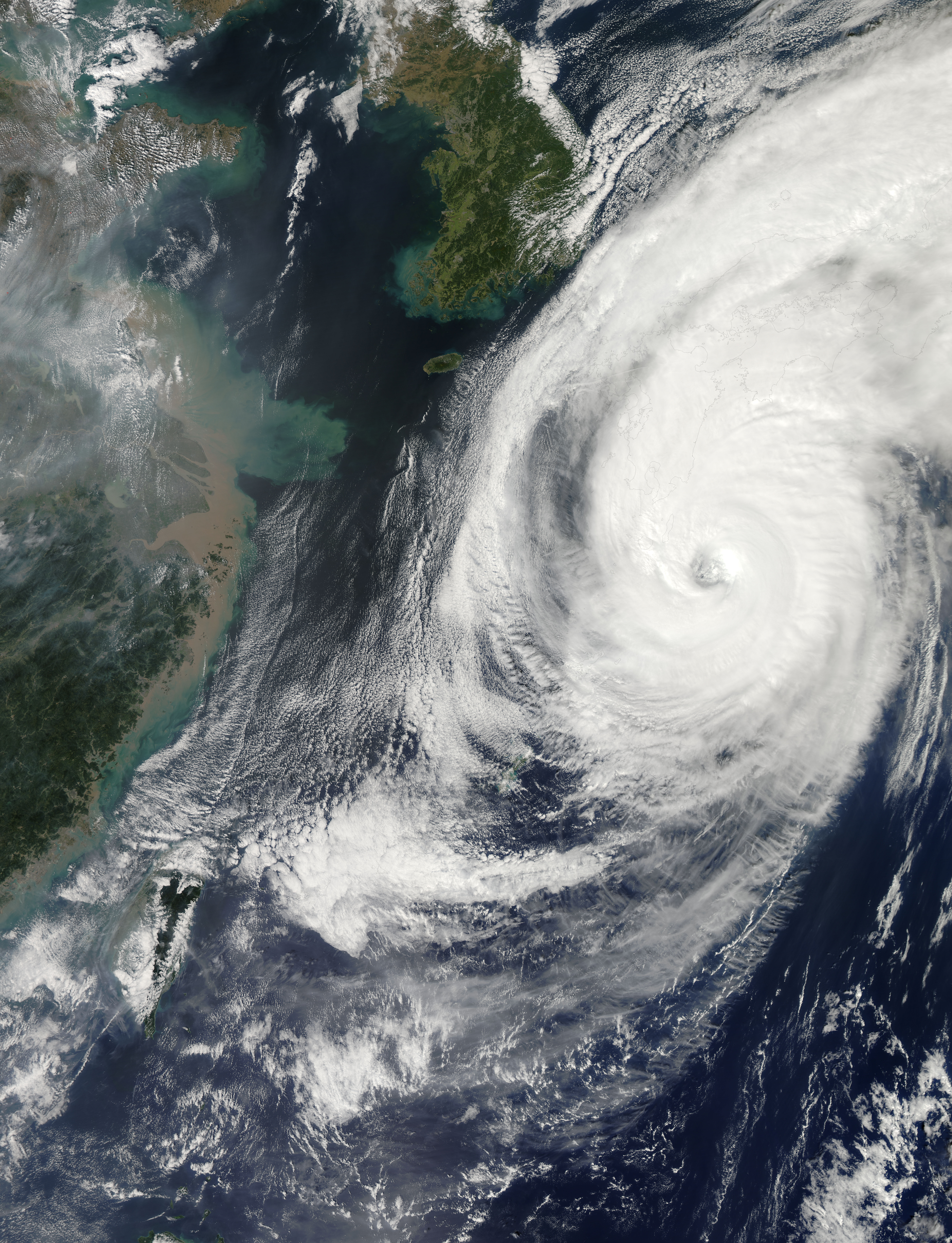 Typhoon Phanfone (18W) approaching Japan